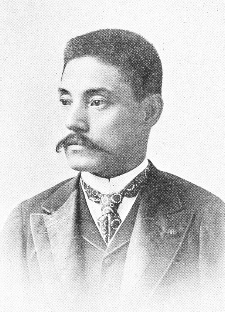 Shinichiro Kurino